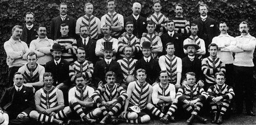 Team photo of the North Adelaide premiership team of 1905. Rear, L to R : J. Burke, B. Gay, C. Fotheringham, R. Gurr, C. Kellett (Committee), J. Pile, J. Matthews, J. McNamara. Second row, L to R : R. Burton, F. Lewis, W. Shields, T. G. Ward (Secretary), J. Earl, A. Ewers, F. Odlum, B. G. Lamprell (Treasurer), H. Ward, T. Hodge, J. Lewis. Third row, L to R : F. Young, C. H. Nitschke (Delegate), H. Pash, L. Cohen (Patron), J. C. Reedman (Captain), G. M. Evan (President), E. MacKenzie (Vice-Captain), H. Sutherland, T. MacKenzie. Front row, L to R : A. Rosser, W. Drew, A. Daly, P. Fleet, J. Rees, C. L. Jessop, N. Pash, E. Johns